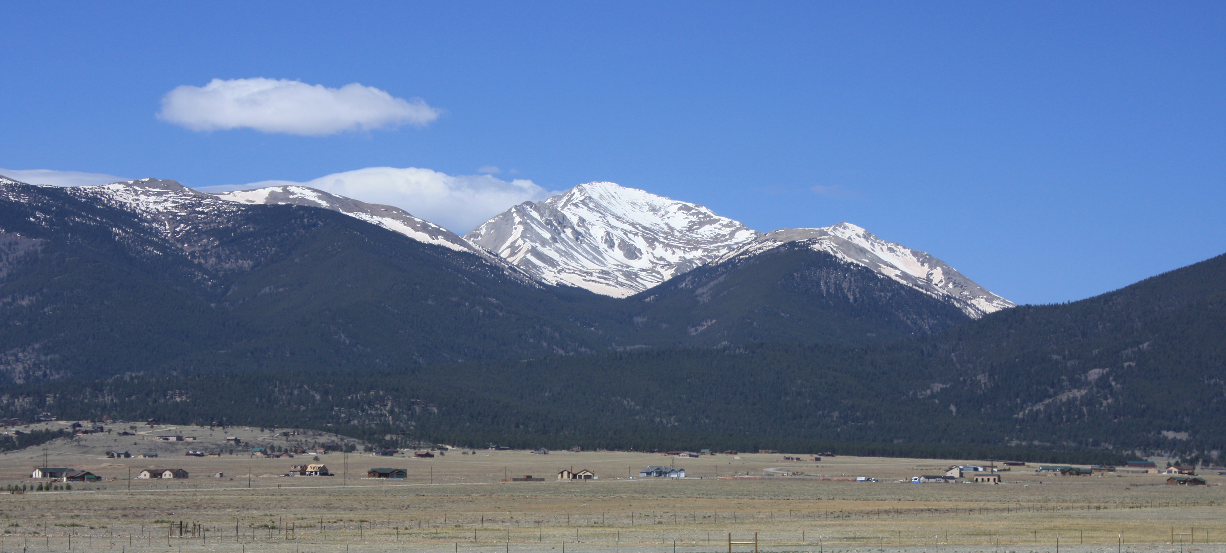 Taken from along US-24, a few miles N/NW of Buena Vista. IMG_2246